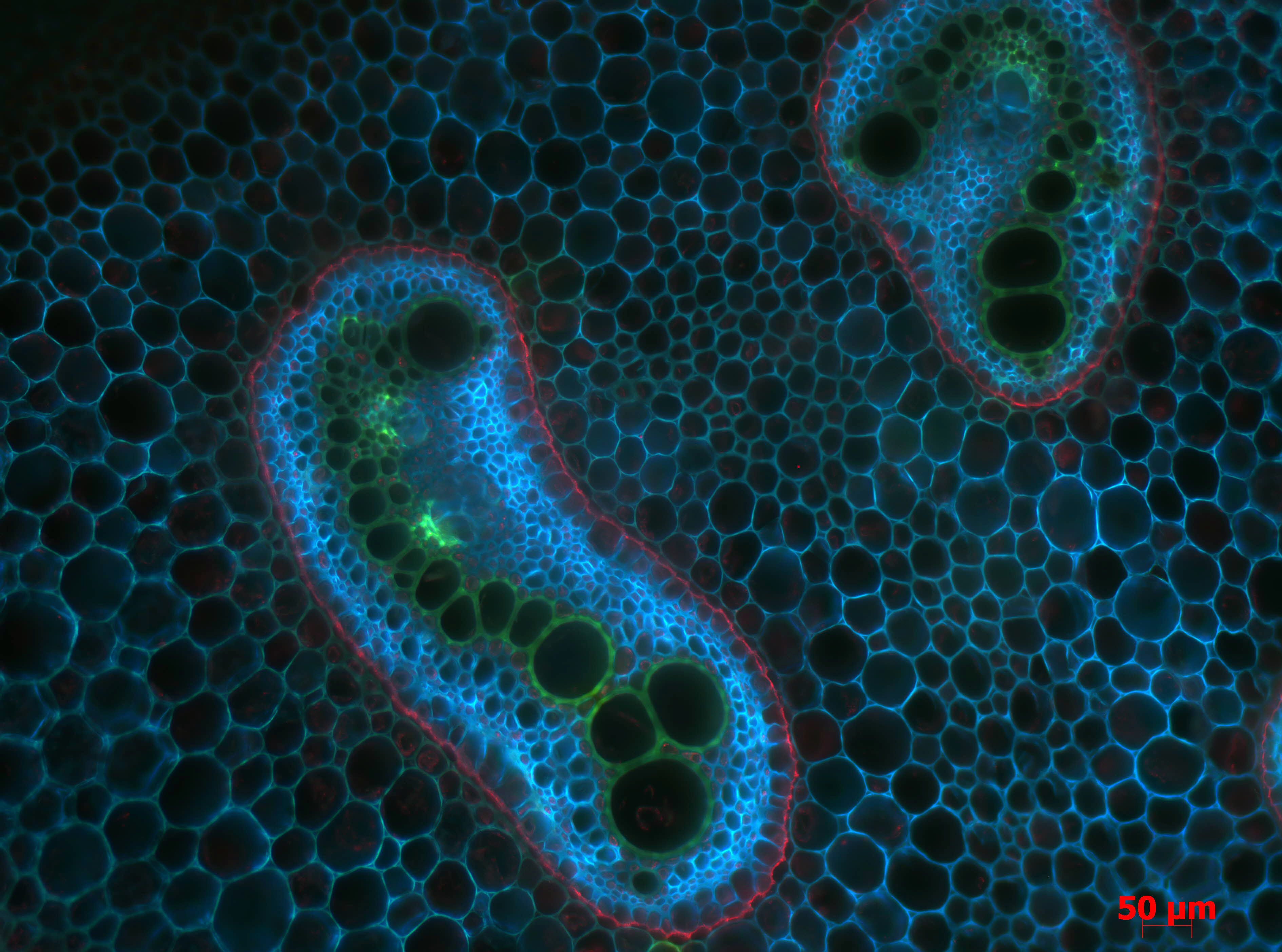 Cross-section of the Pteridium aquilinum leaf, stained with Calcofluor White (confocal microscope). In the thickness of cortical cells two conducting bundles as the part of dictyostele (type of siphonostele) are presented.